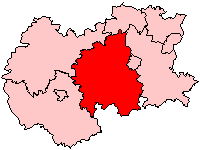 Hereford and Worcester Malvern Hills